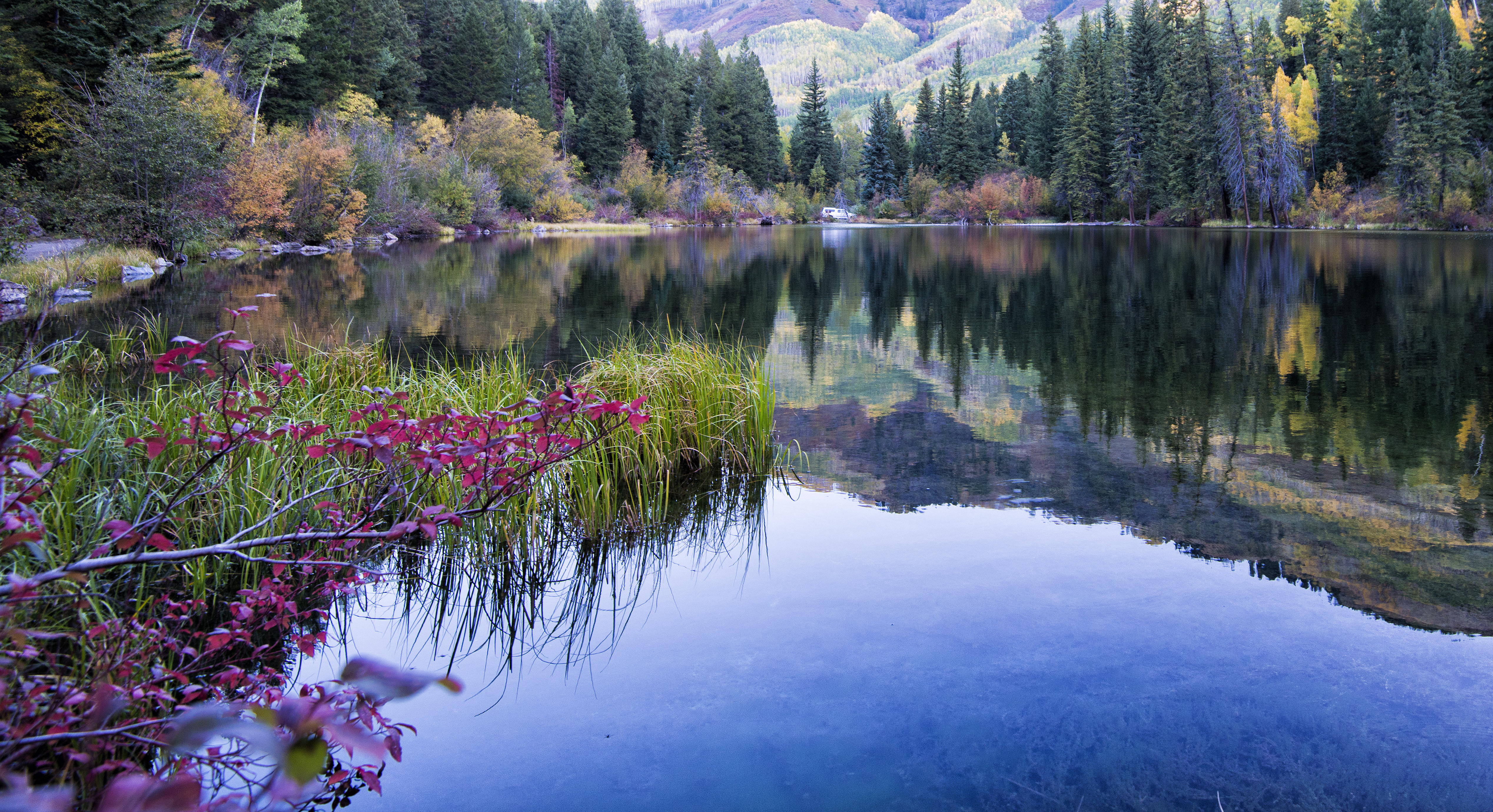 Lizard Lake, Colo. This pretty lake is between Marble and Crystal, Colorado. Yep, that's my truck.